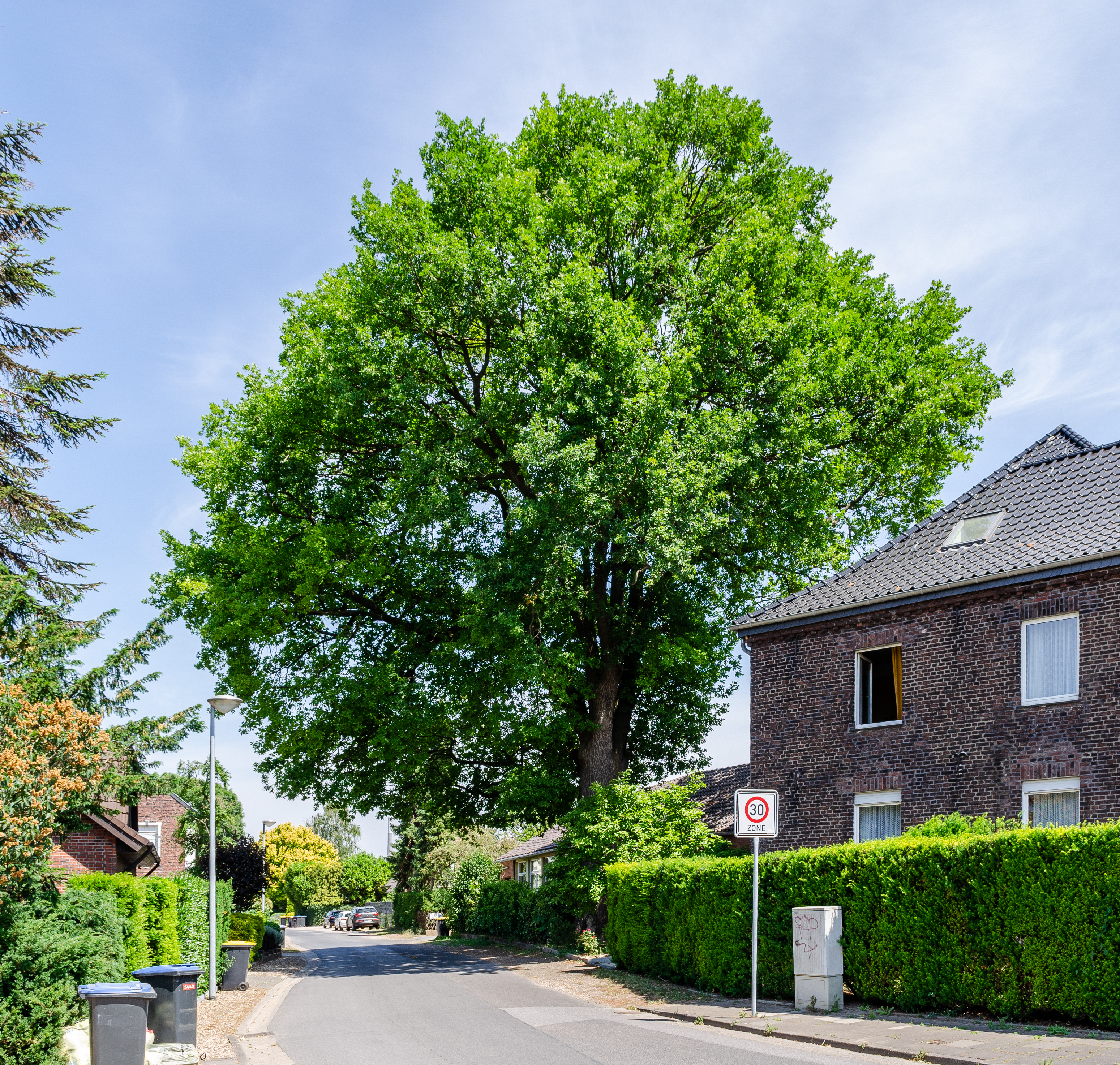 Rheinberg (North Rhine-Westphalia, Germany) – village Eversael – oak of peace (1871)